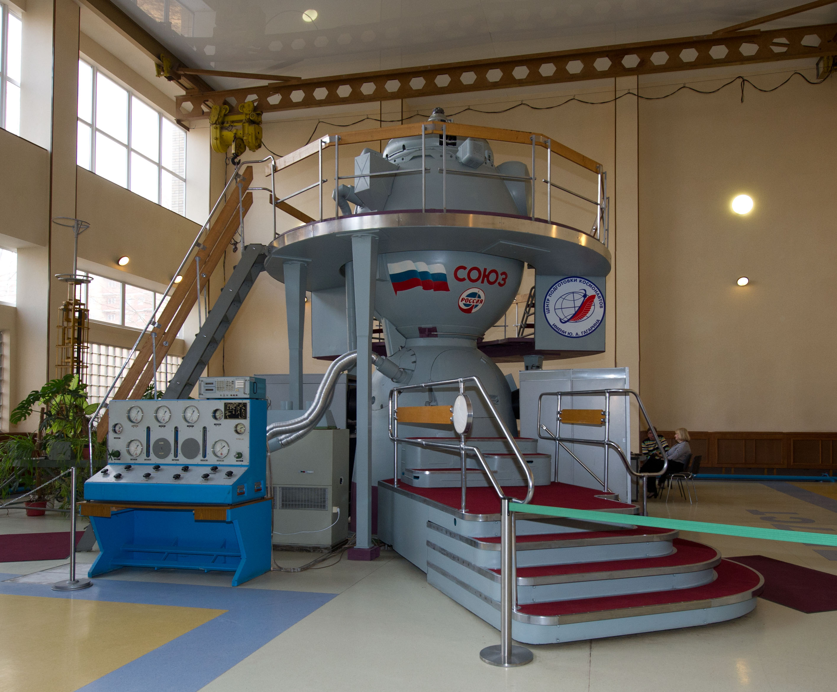 A Soyuz TMA spacecraft mock-up is seen at the Gagarin Cosmonaut Training Center, April 23, 2012 in Star City, Russia. Expedition 31 prime and backup crew members train in the Soyuz mock-up in preparation for final flight to the International Space Station.